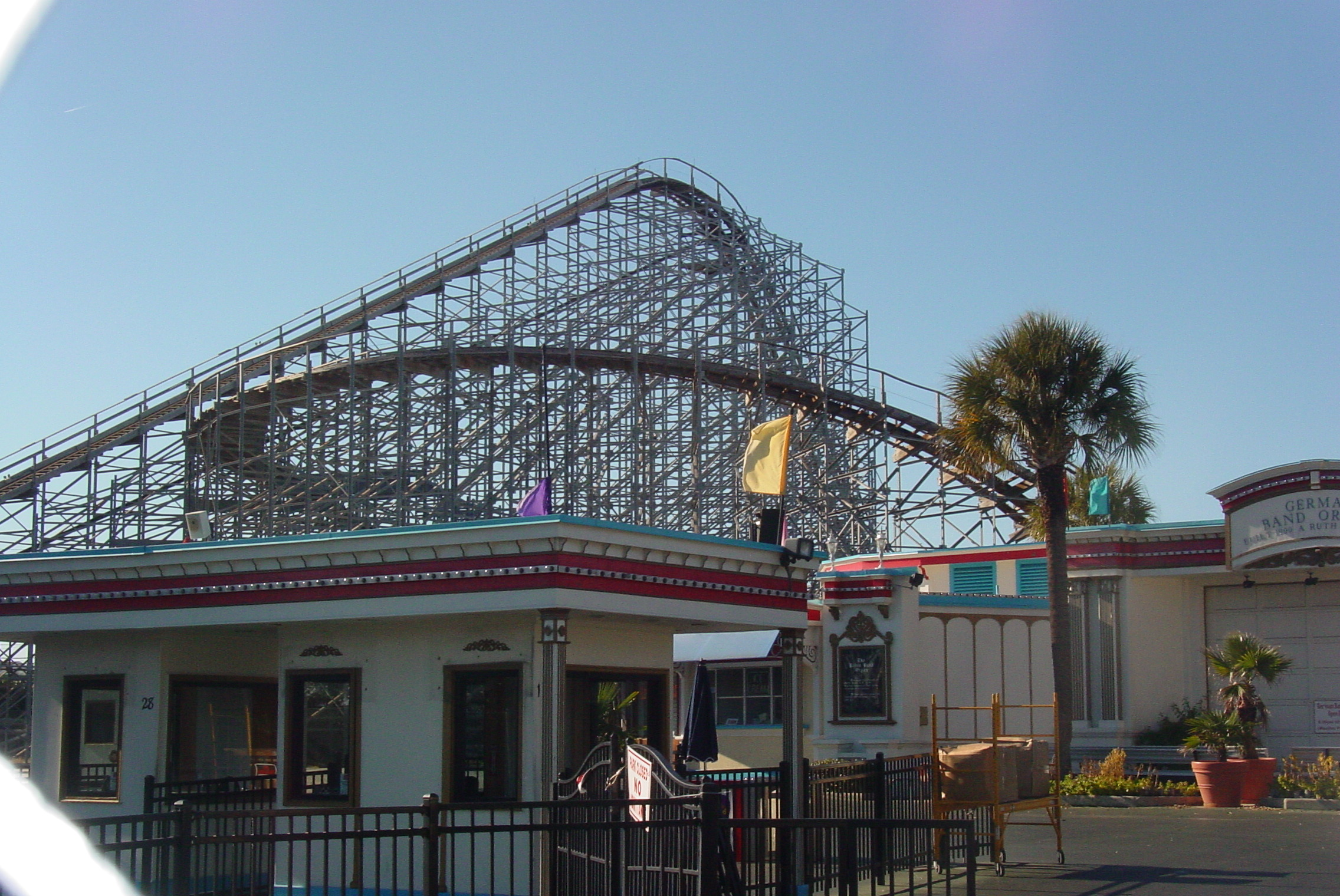 One of Hurricane's final helixes along with its initial lift hill. The only requirement of this license is that you give me credit, otherwise the image is free.